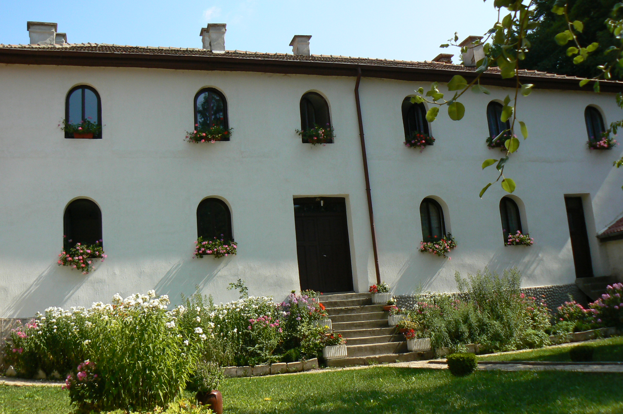 Divotino Monastery, Bulgaria